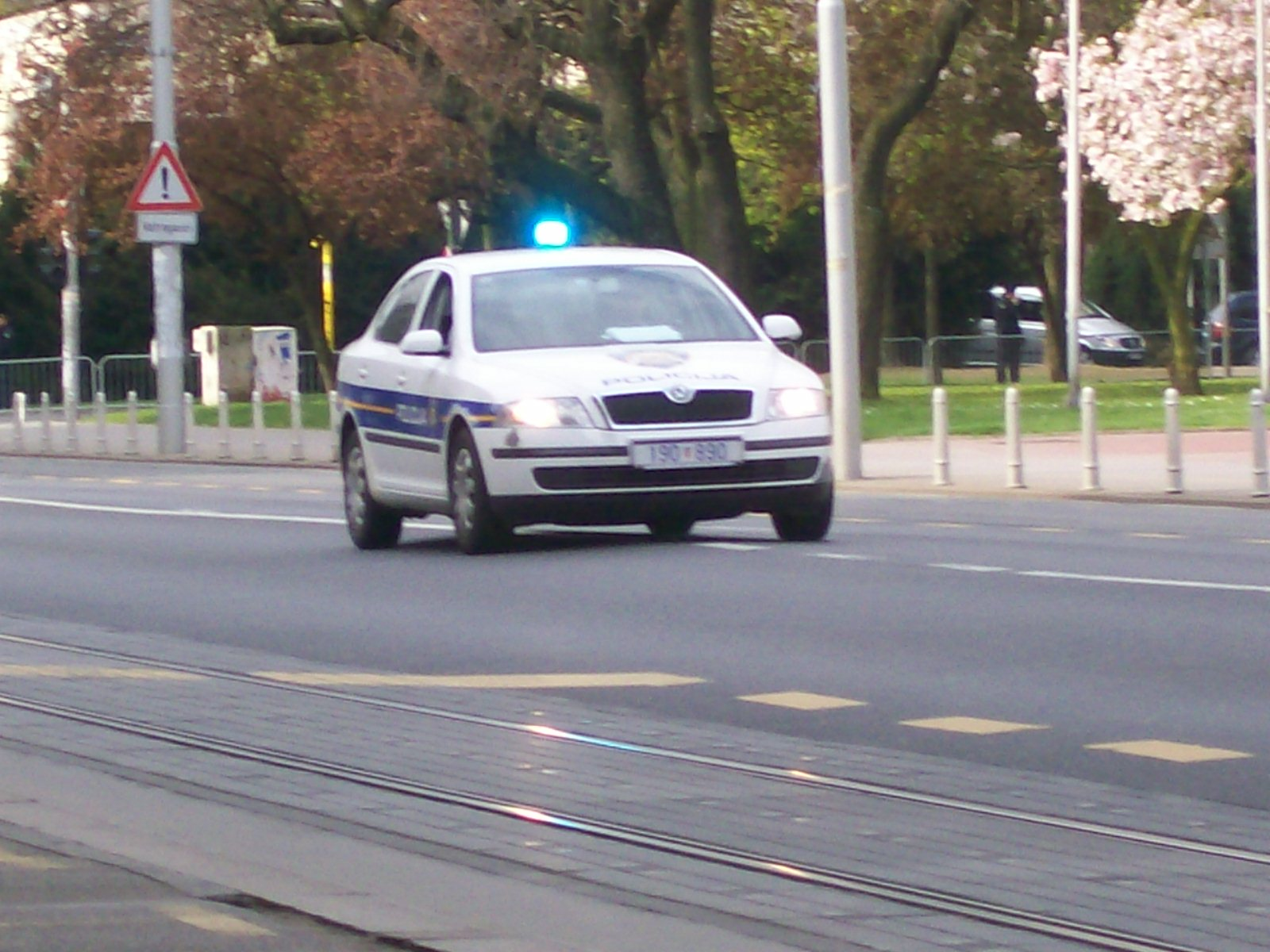 Croatian police car